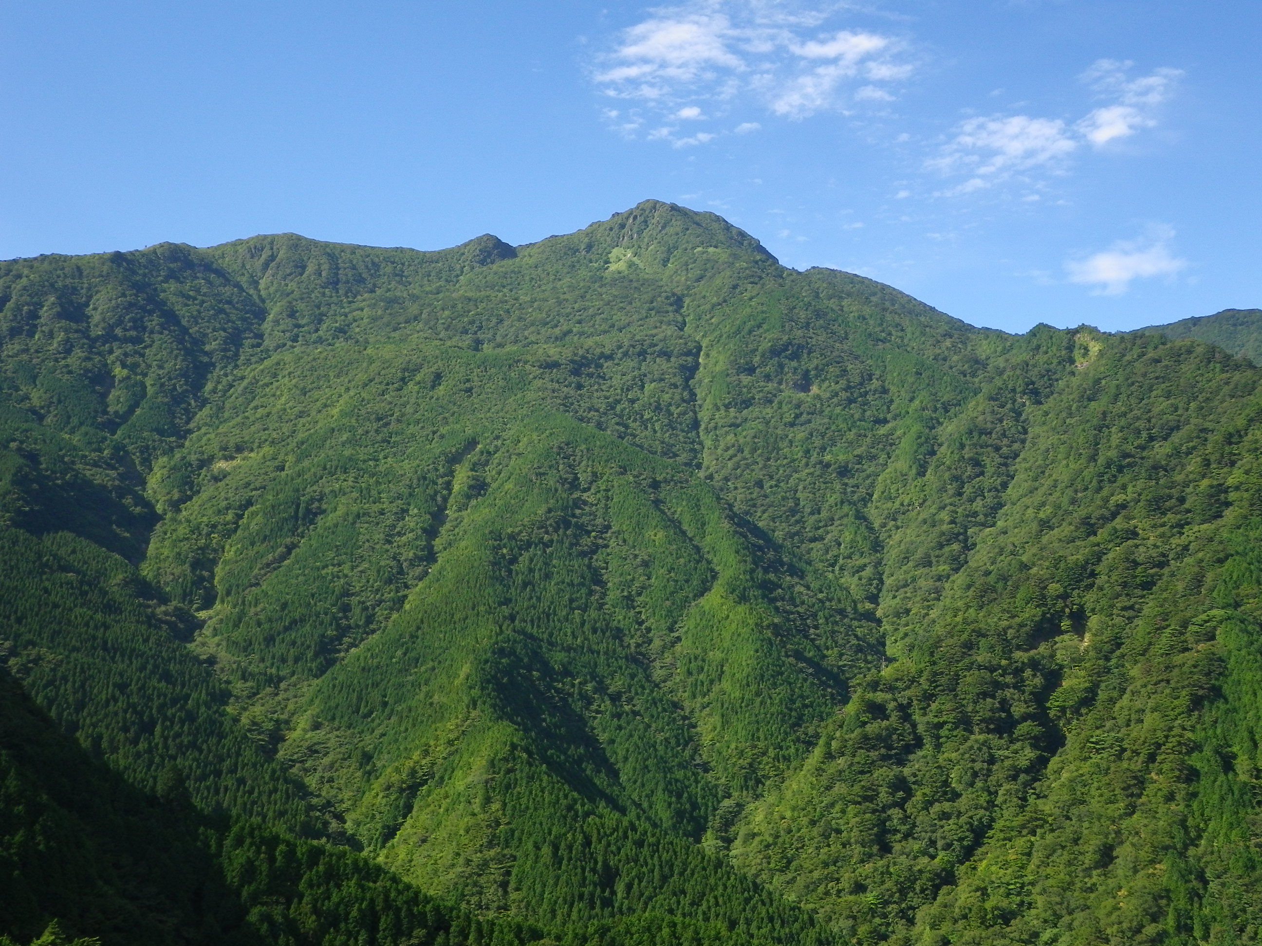 Mount Chichi (Chichi-yama) as seen from the northeast. Shot on the Ehime Prefectural Road Route 47.